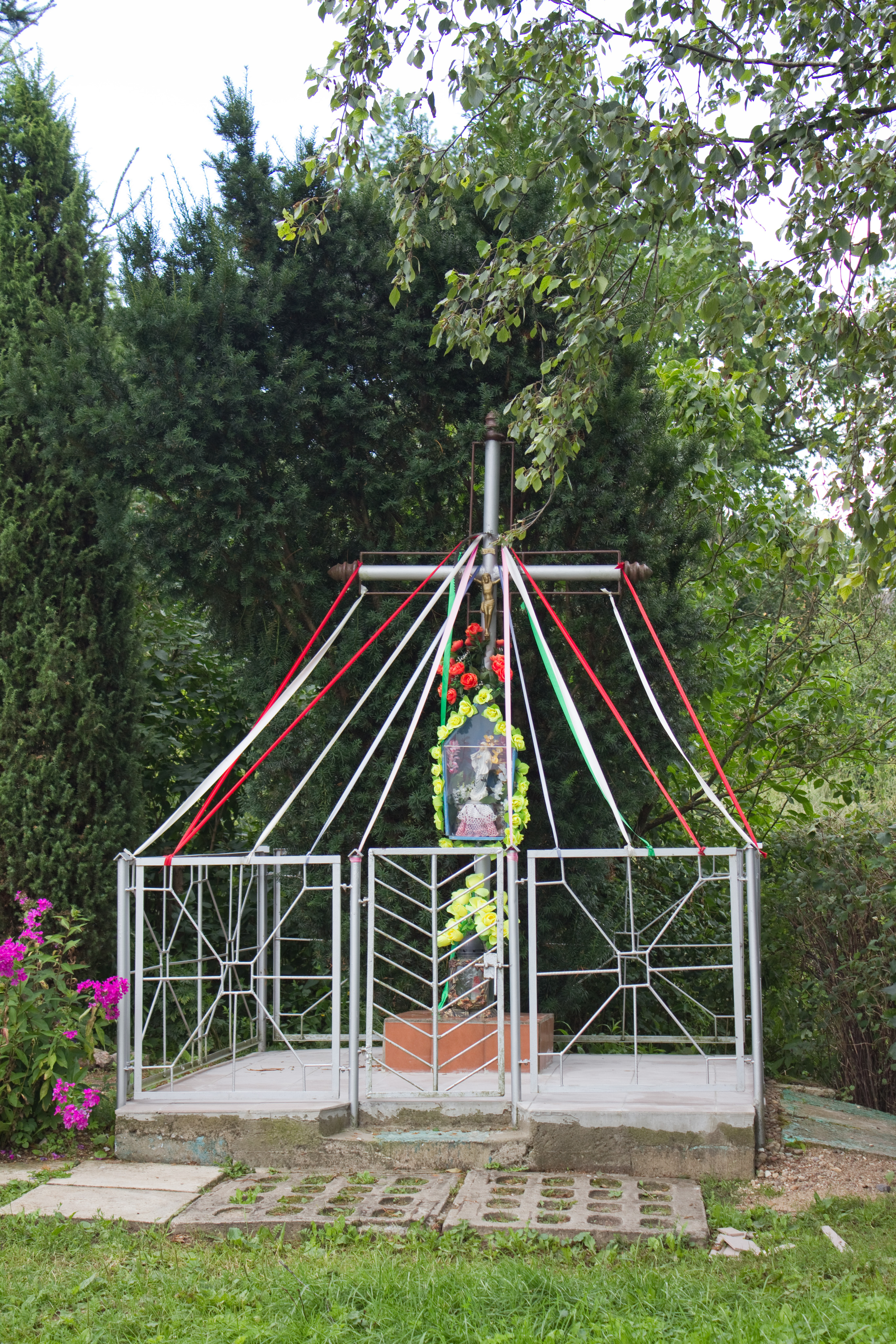 Wayside cross, Mołdyty, gmina Bisztynek, powiat bartoszycki, Warmian-Masurian Voivodeship